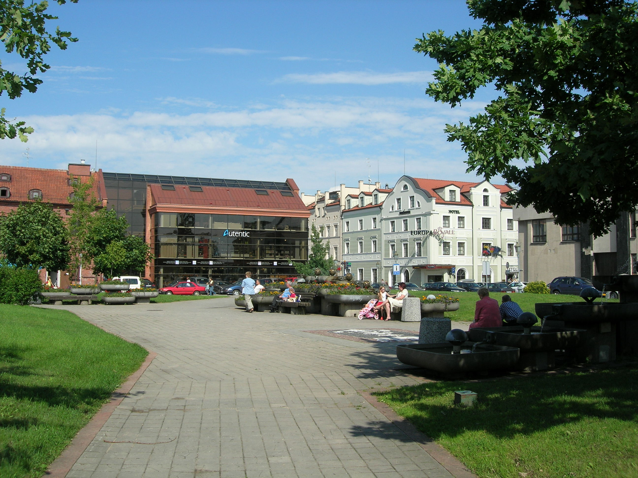 Karlskronos aikštė, the Old town of Klaipėda